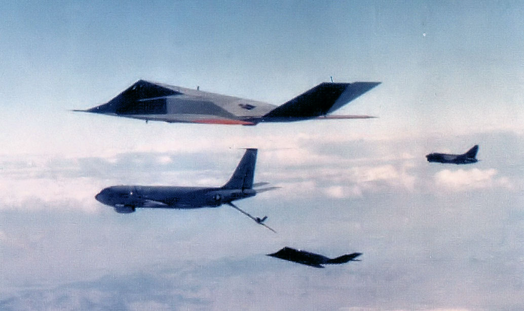 Two 4450th Tactical Group F-117As refueling from KC-135 tanker and an A-7D chase plane Nevada. Note the aircraft in the for ground with the grey/black paint, this is the first F-117, 780. This photo dates from about 1984